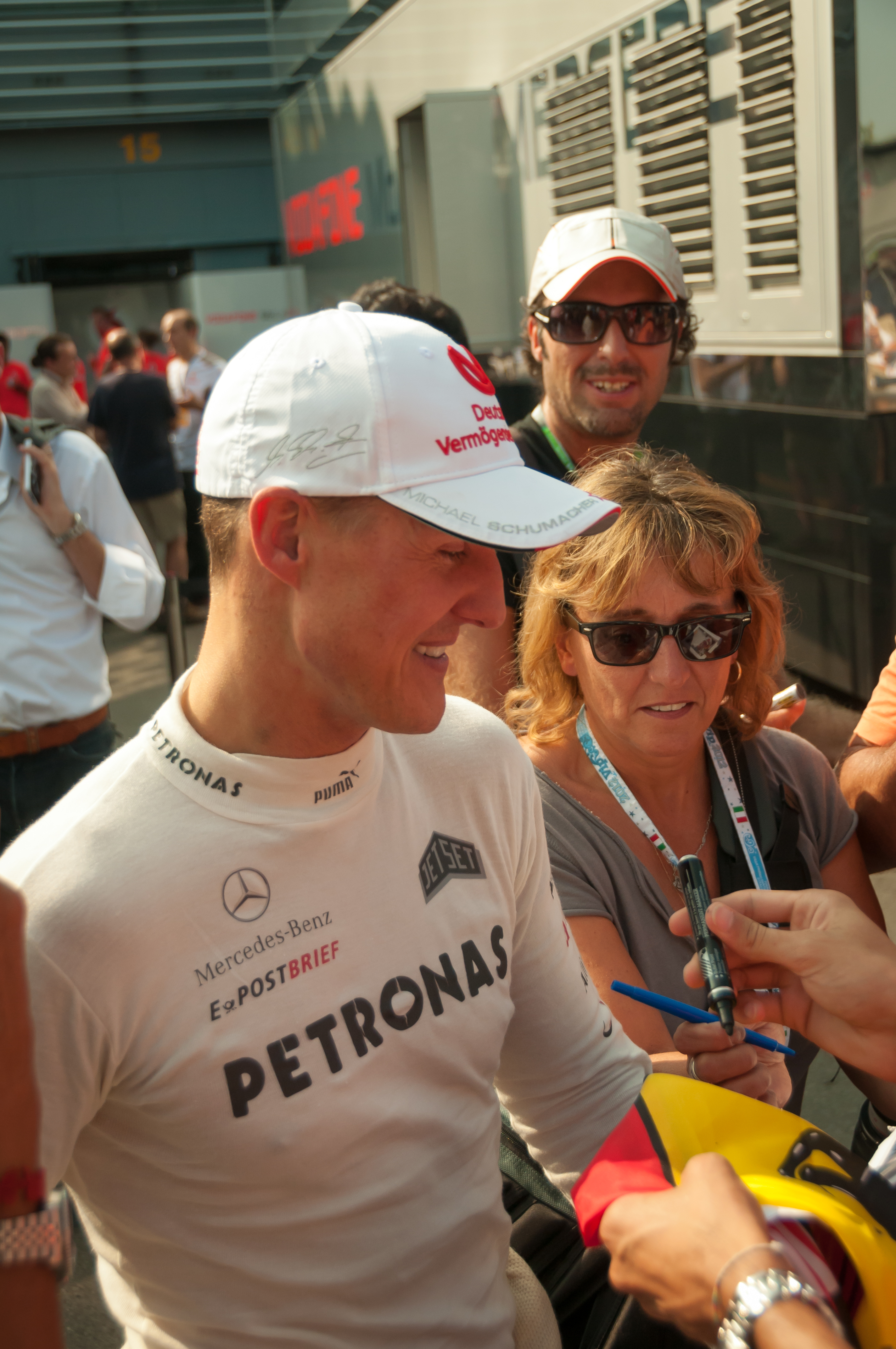 Michael Schumacher in 2012 Italian GP.